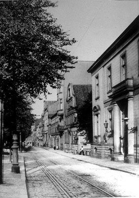 Palmaille (Straße) in Hamburg-Altona. Das repräsentative barocke Giebelhaus in der Bildmitte kaufte Schumacher 1821. Auf dem Gartengrundstück dahinter errichtete er die Sternwarte Altona. Das Gartengelände fiel steil zur Elbe ab und erlaubte einen weiten Blick.